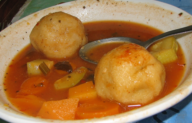 Plate of Kubbeh Matfuniyah, Rahmo Restaurant, Mahane Yehuda Market, Jerusalem.